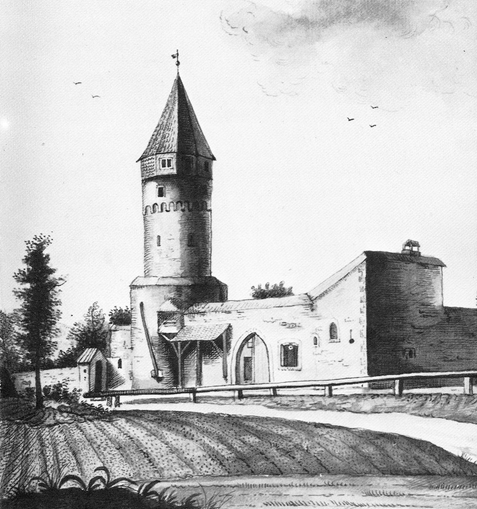 Frankfurt/M., Germany: Watchtower Bockenheimer Warte in the year 1700. Black-and-white print of a painting by Johann Peter Neef